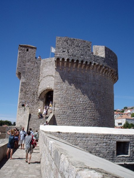 Minčeta tower in Dubrovnik, Croatia